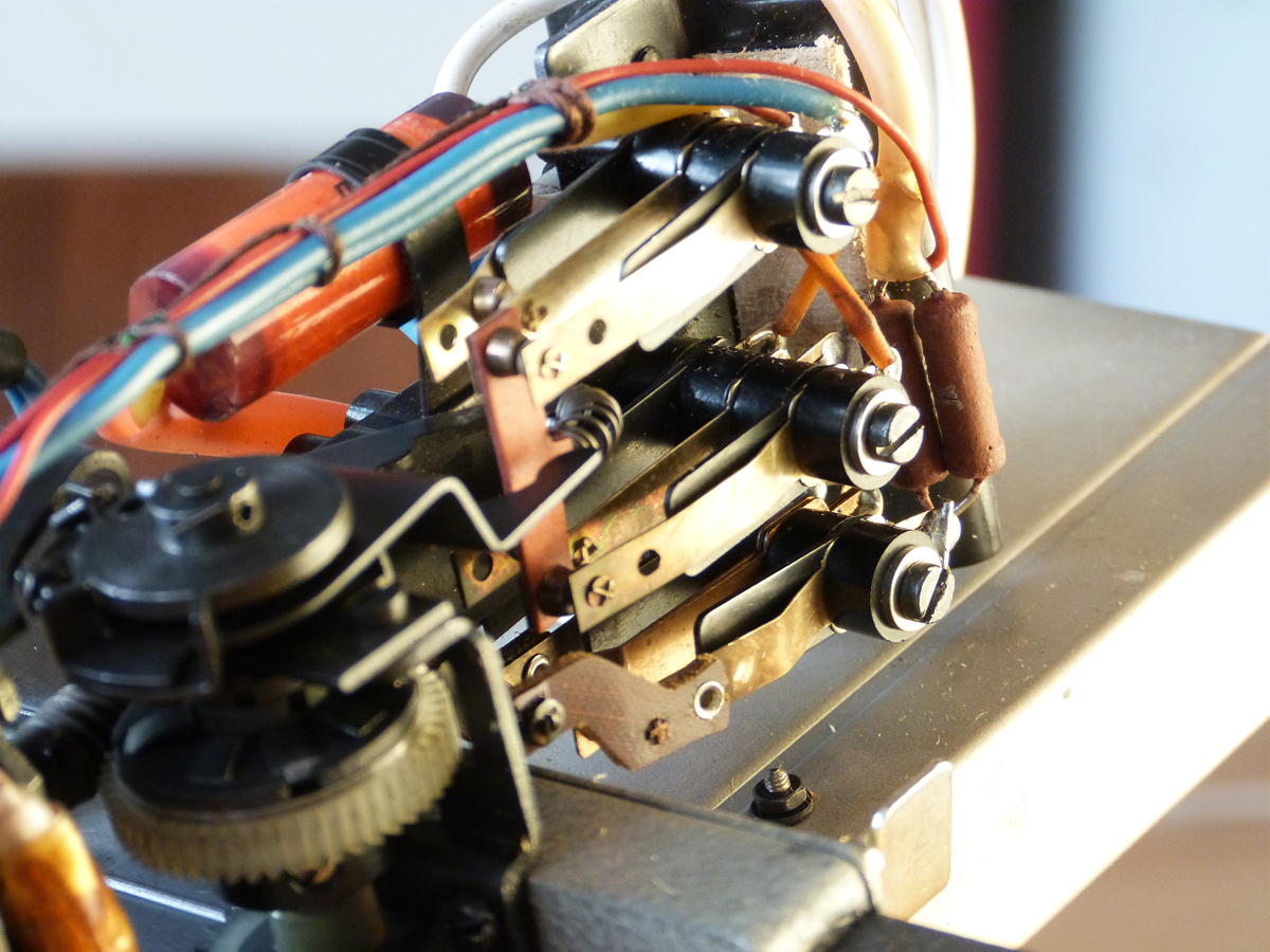 slide projector ASPECTAR 150 A